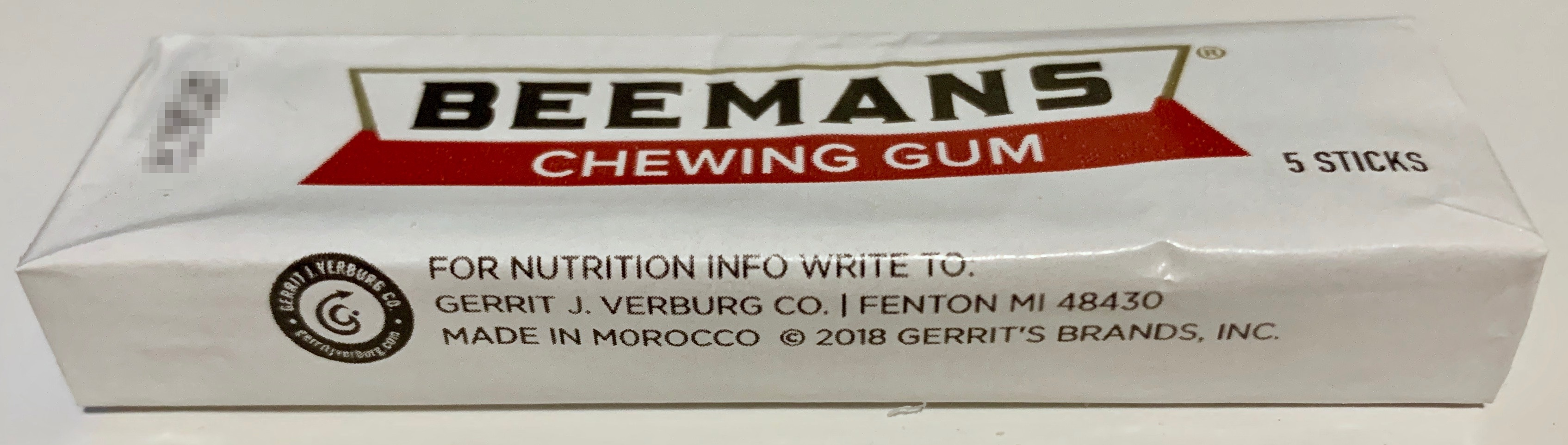 This is a pack of Beemans Chewing Gum purchased in 2019 in the USA.